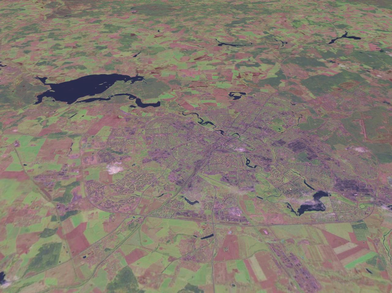 Minsk, Belarus from space.